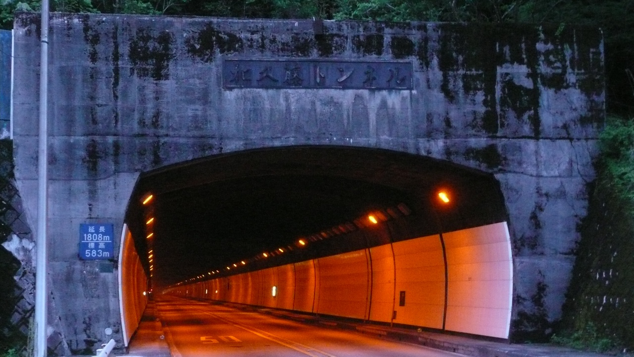 Kakuto Tunnel (National Route 221 - Hitoyoshi City, Kumamoto, Japan)